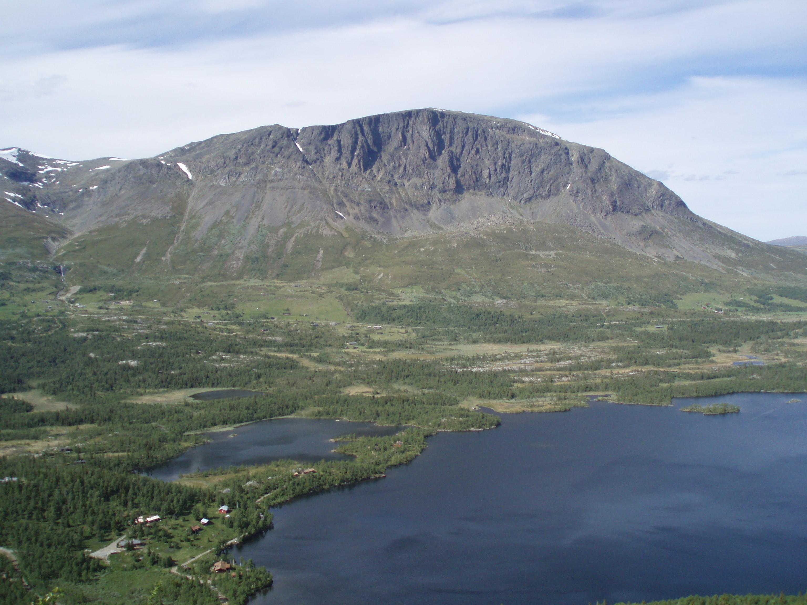 Picture of mount Skogshorn in the summer time. The picture is taken from the top of Storhøvda.